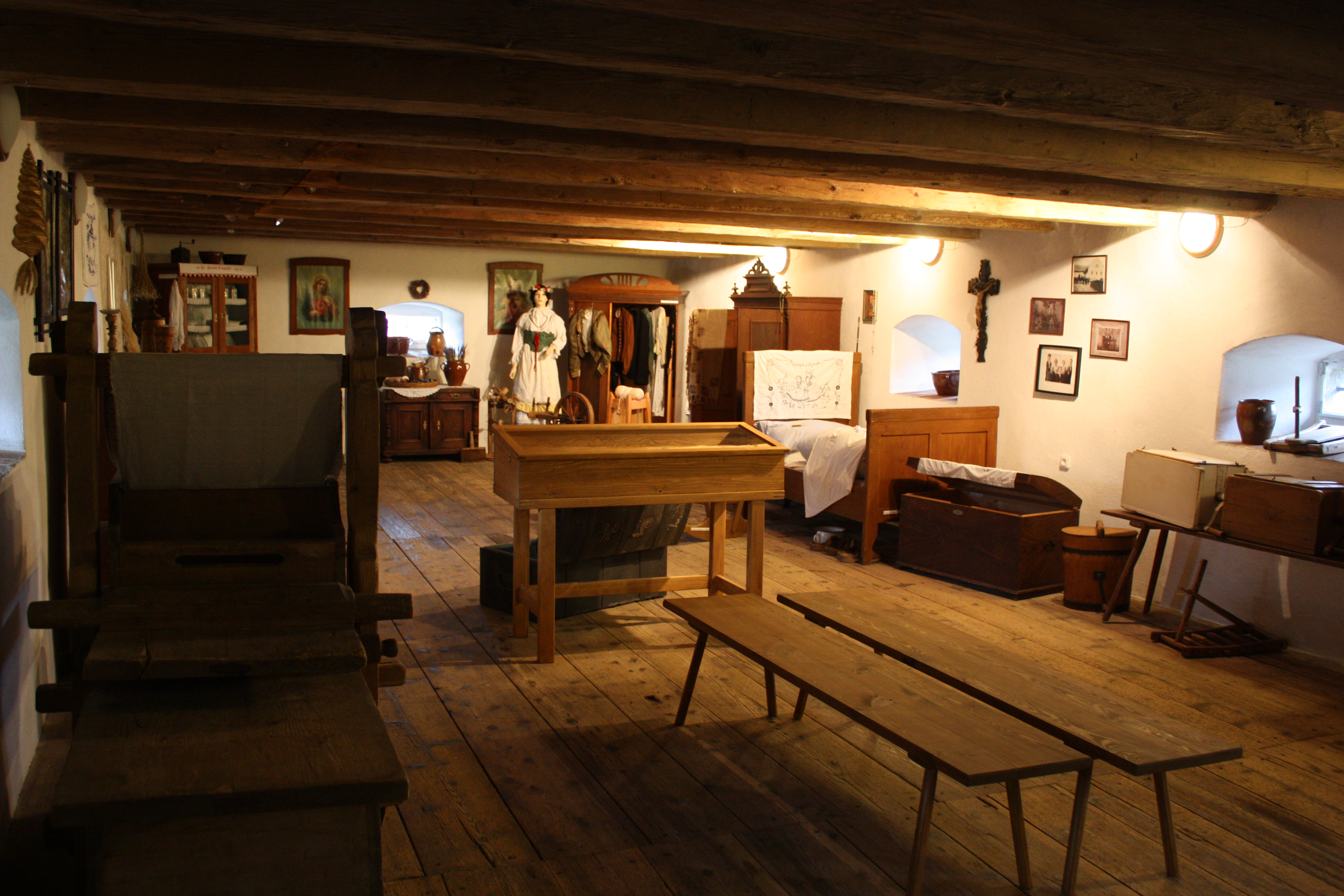 Interior of Váchův špejchar - baroque grange in Dražkov (Přibram district) in Central Bohemia, Czechia.